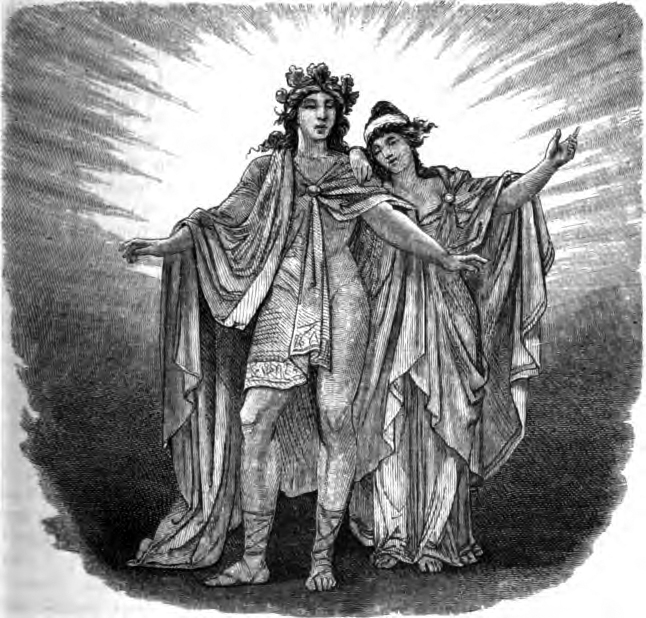 Captioned as "Balder und Nanna". The god Baldr and his wife Nanna.